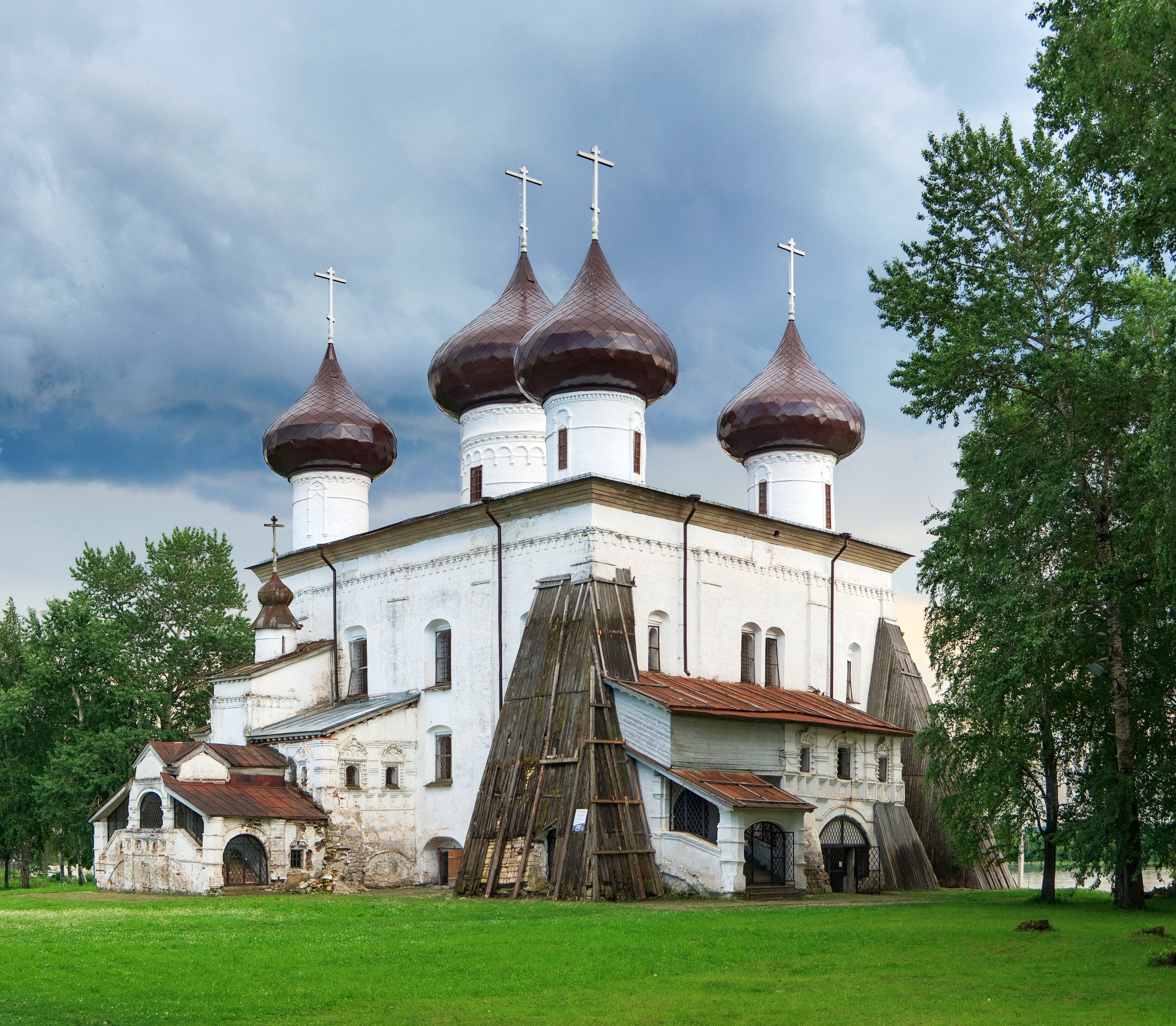 Church of the Nativity of Christ, Kargopol, Arkhangelsk Oblast, Russia